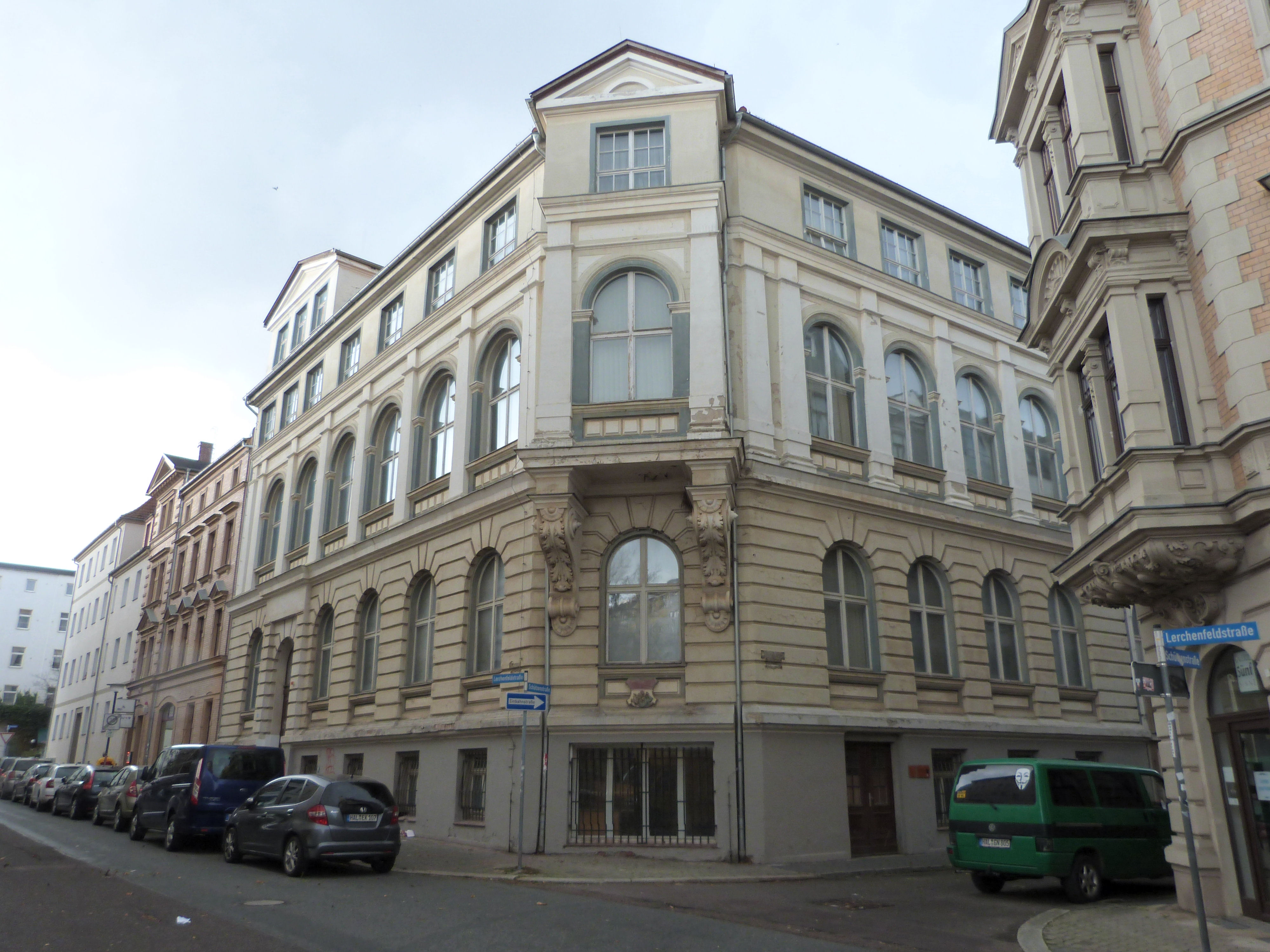 House No. 14 Lerchenfeldstrasse in Halle (Saale)